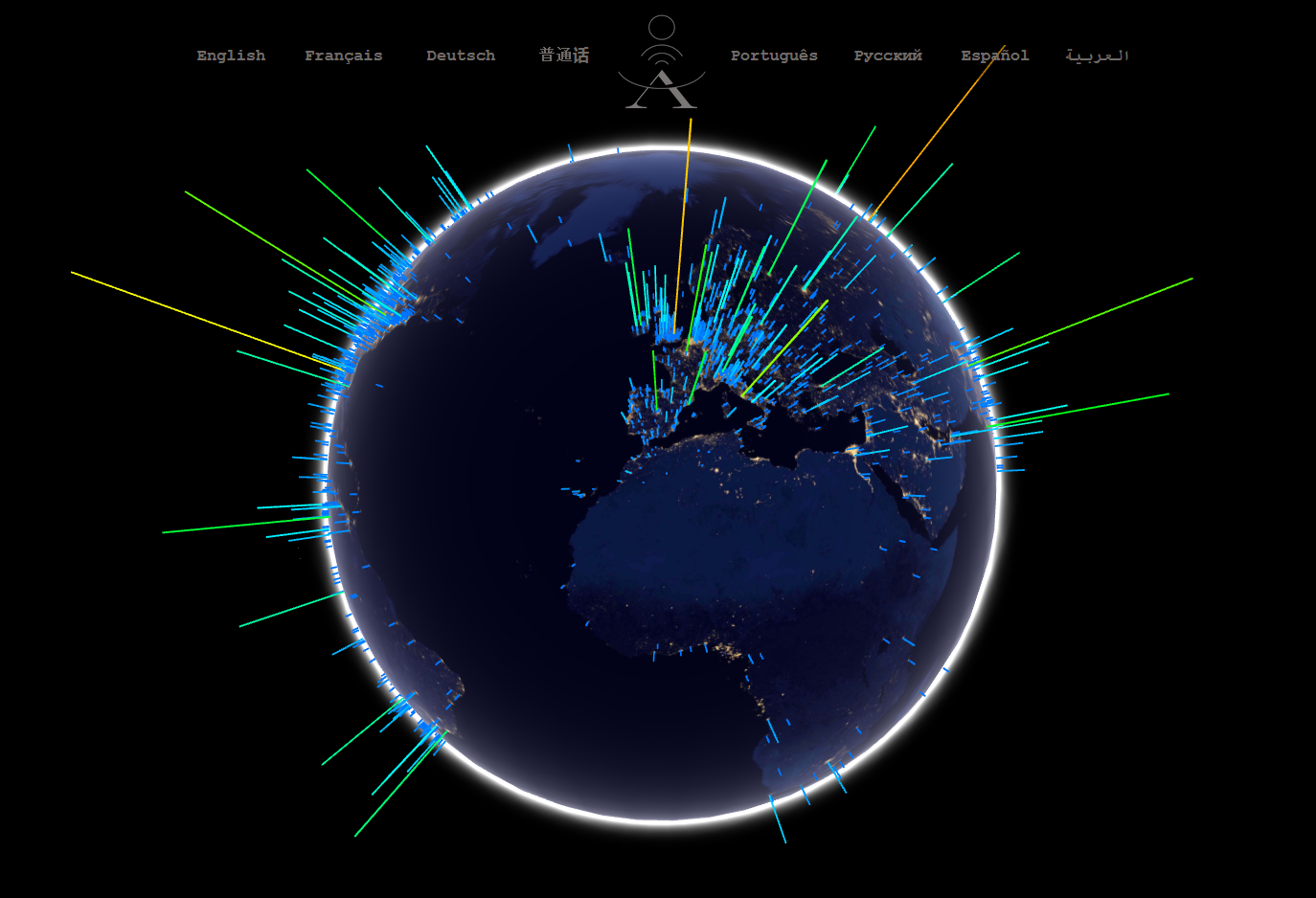 Globe details the relative locations of all submission to the A Simple Response... transmission